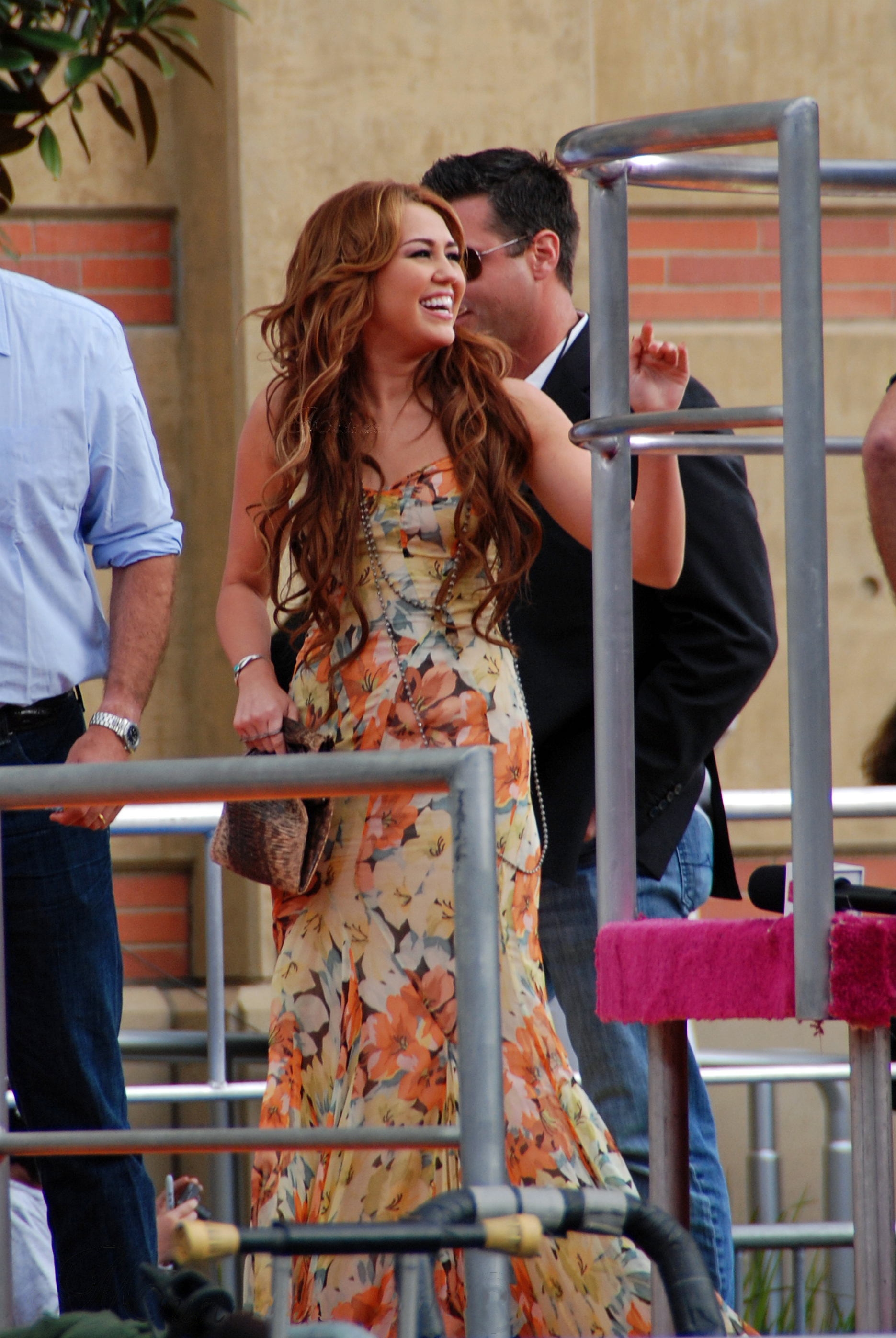 Miley Cyrus at The Kids Choice Awards 2011, Galen Center, Los Angeles, April 2, 2011.